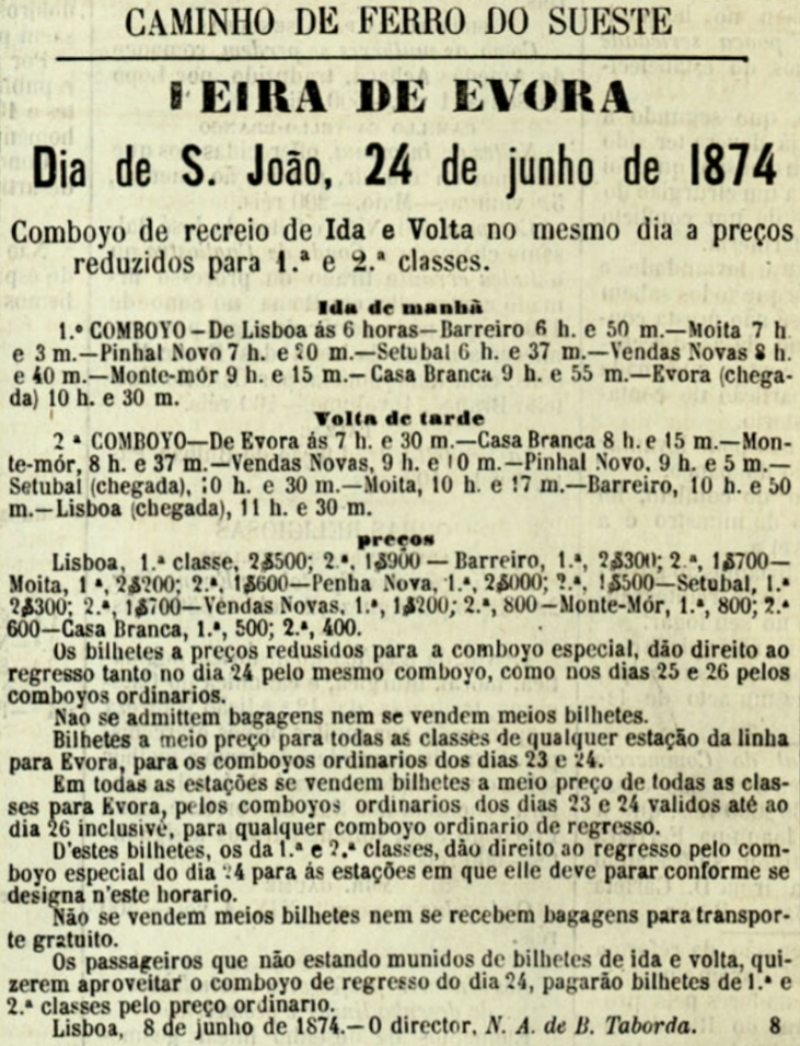 Advertisement of the Caminho de Ferro do Sueste (Portuguese Southeastern Railway) for special trains at reduced prices from Lisbon and Setúbal to Évora, for a fair on the day of the Nativity of St John the Baptist. This image was published on the Diario Illustrado newspaper No. 638, of 19th June 1874, and scanned by the Biblioteca Nacional de Portugal.